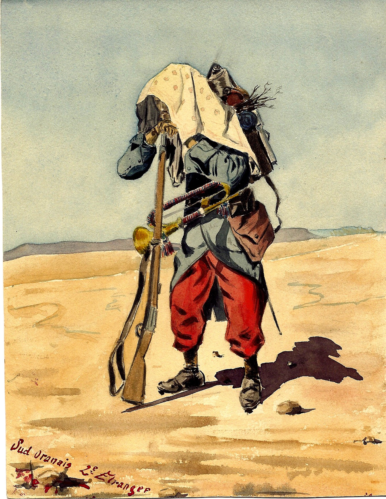 painting of a soldier of french foreign legion